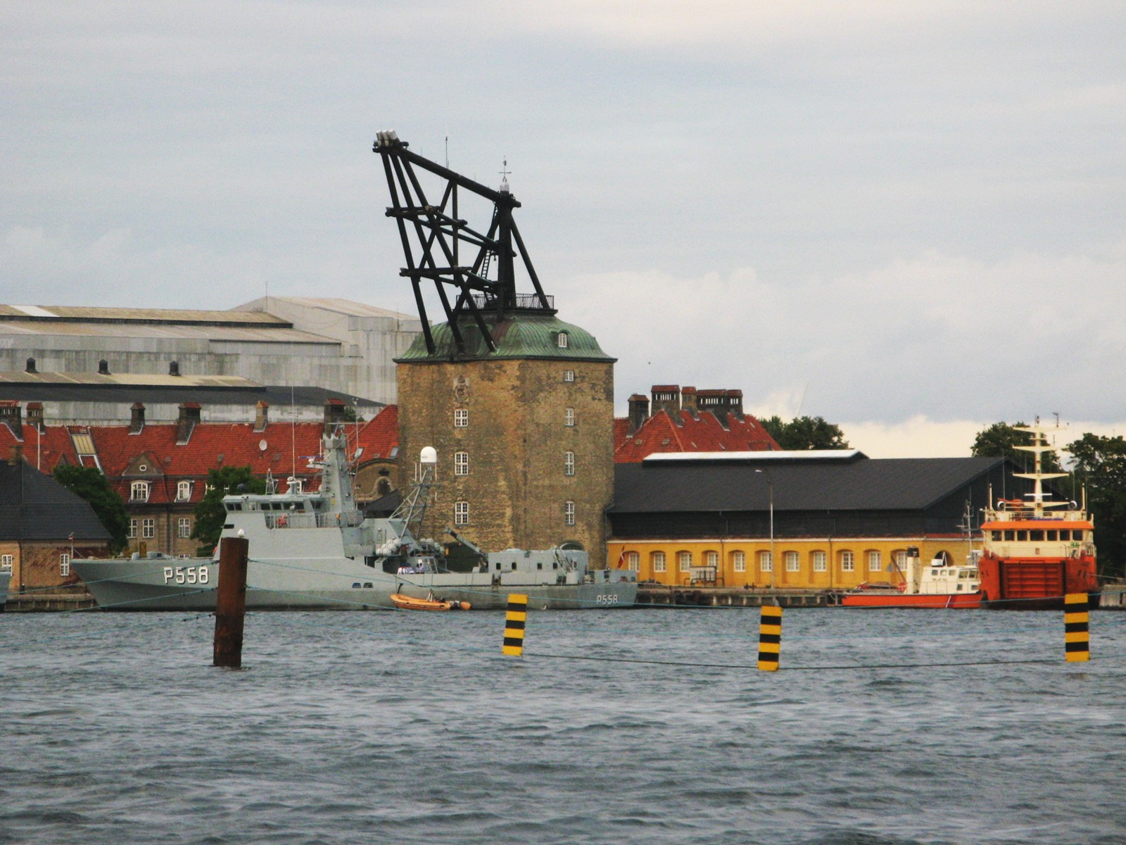 A crane constructed in 1742, used for mounting masts to sailing vessels. Harbour of Copenhagen, Denmark